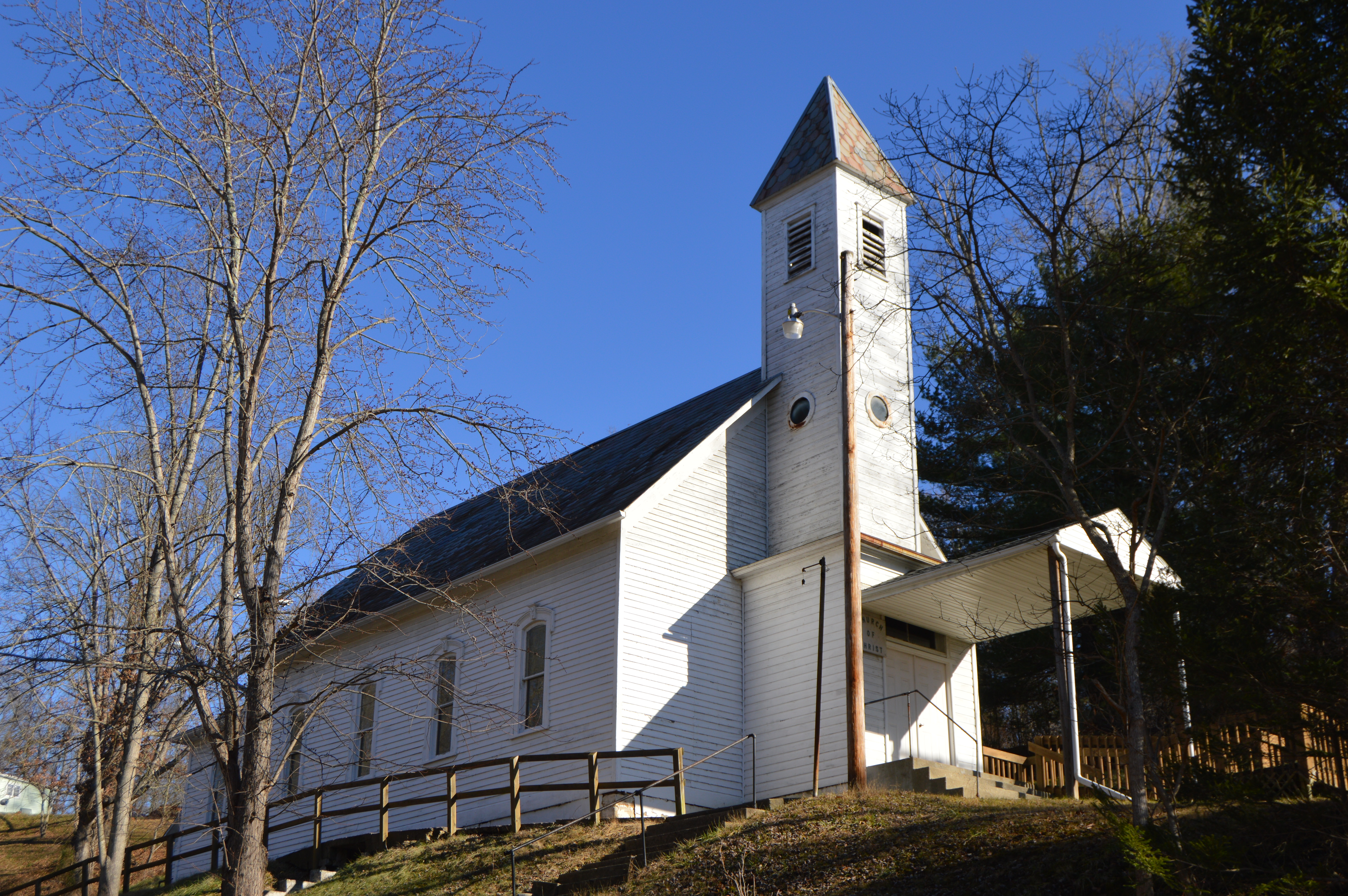 Front and western side of the Hemlock Church of Christ, located on the northeastern corner of the intersection of Sanders (State Route 155) and High Streets in Hemlock, Ohio, United States.